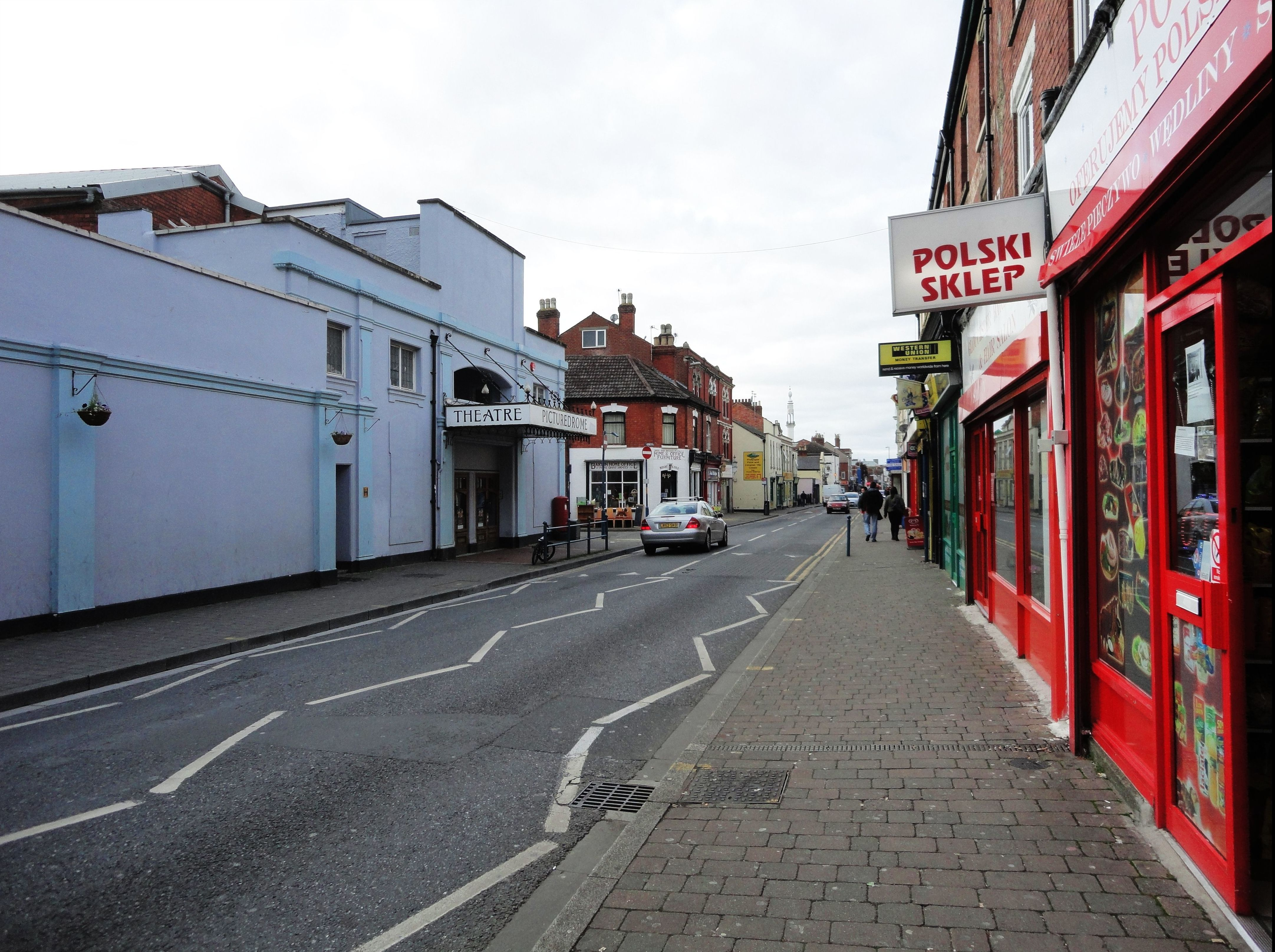 Gloucester, Barton Street, left: Gloucester Picturedrome (theatre in a former cinema)